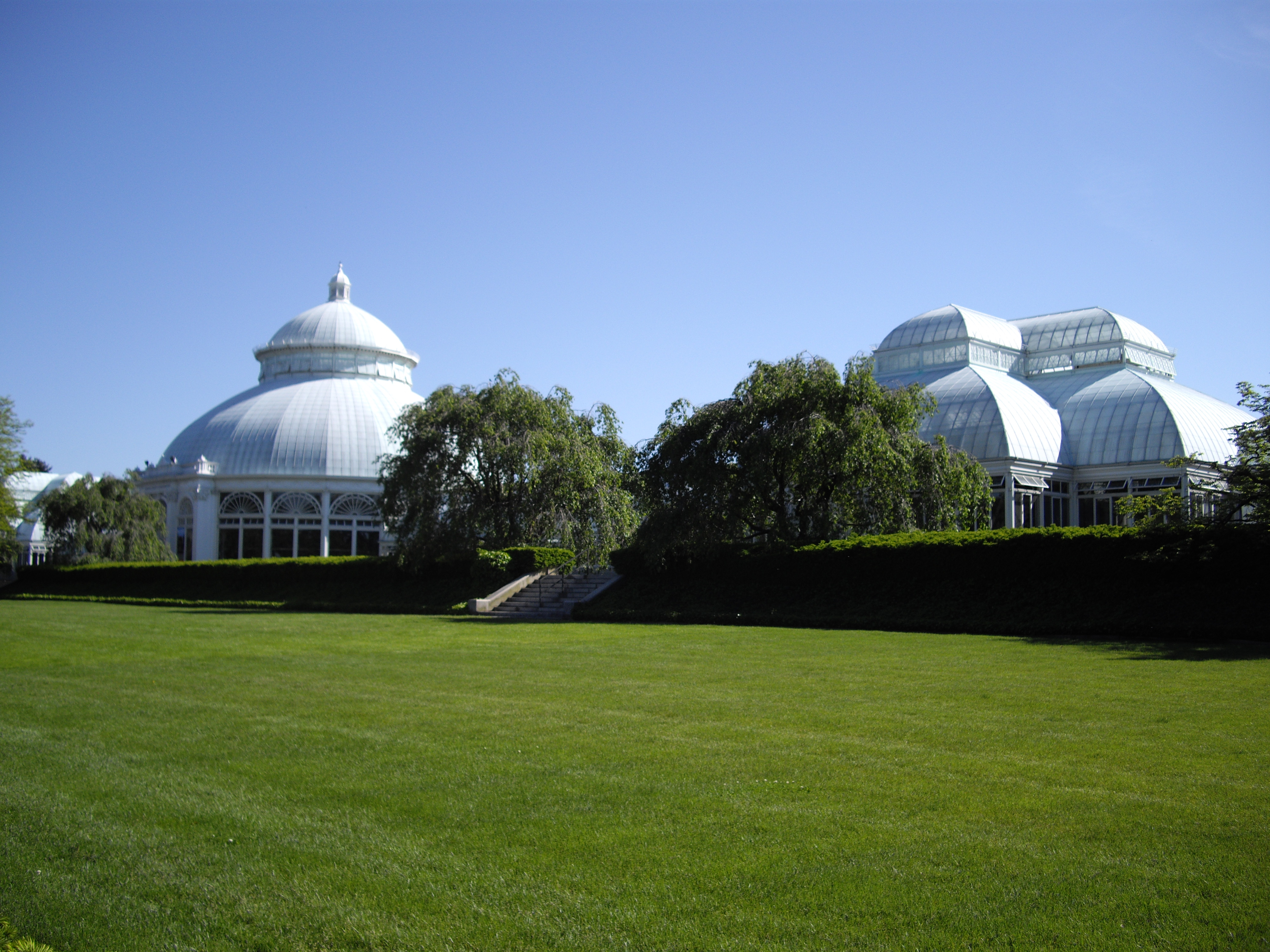 NY Botanical Garden, Haupt Conservatory